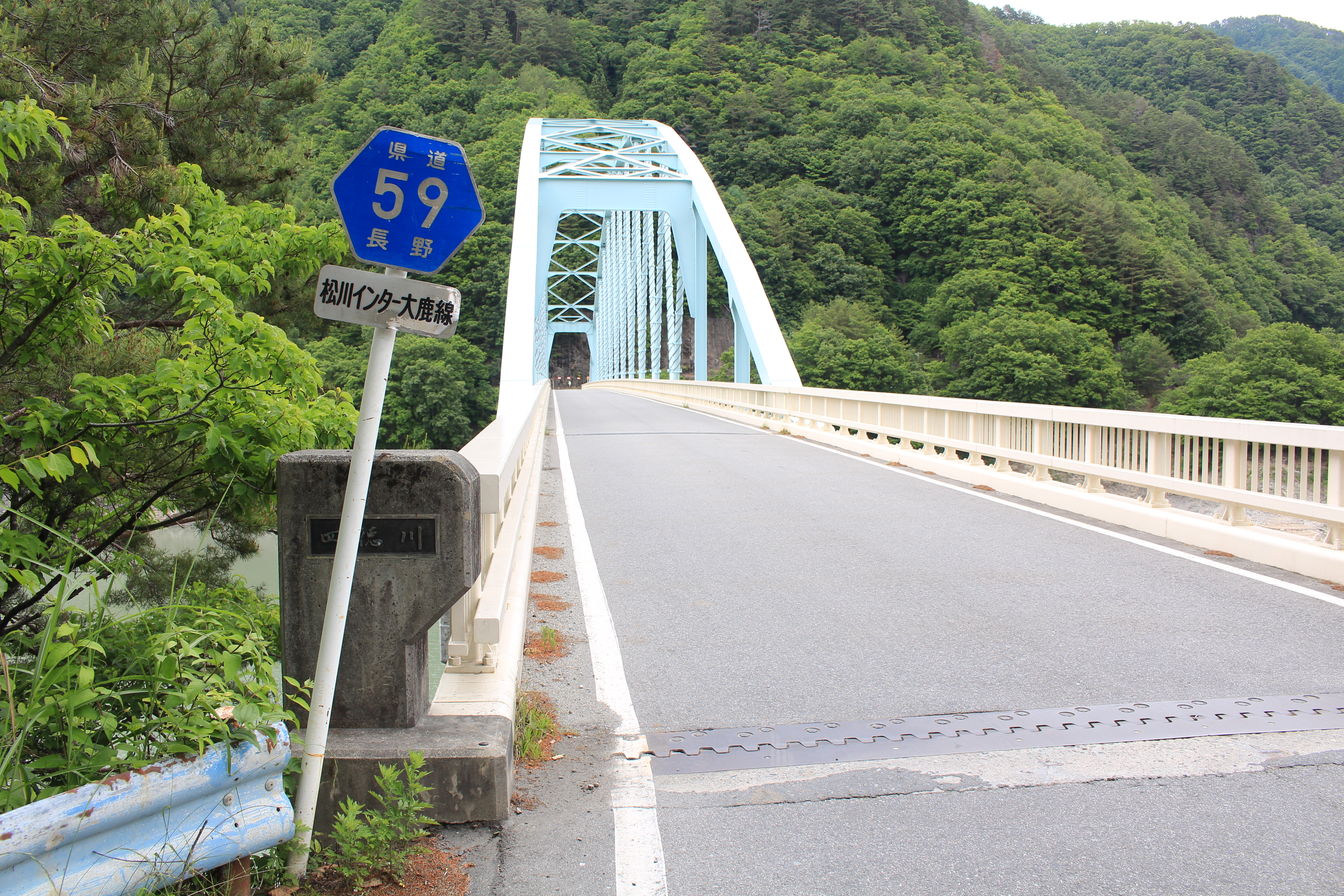 Shitoku Bridge of Nagano Prefectural Road Route 59 in Nakagawa, Nagano prefecture, Japan.